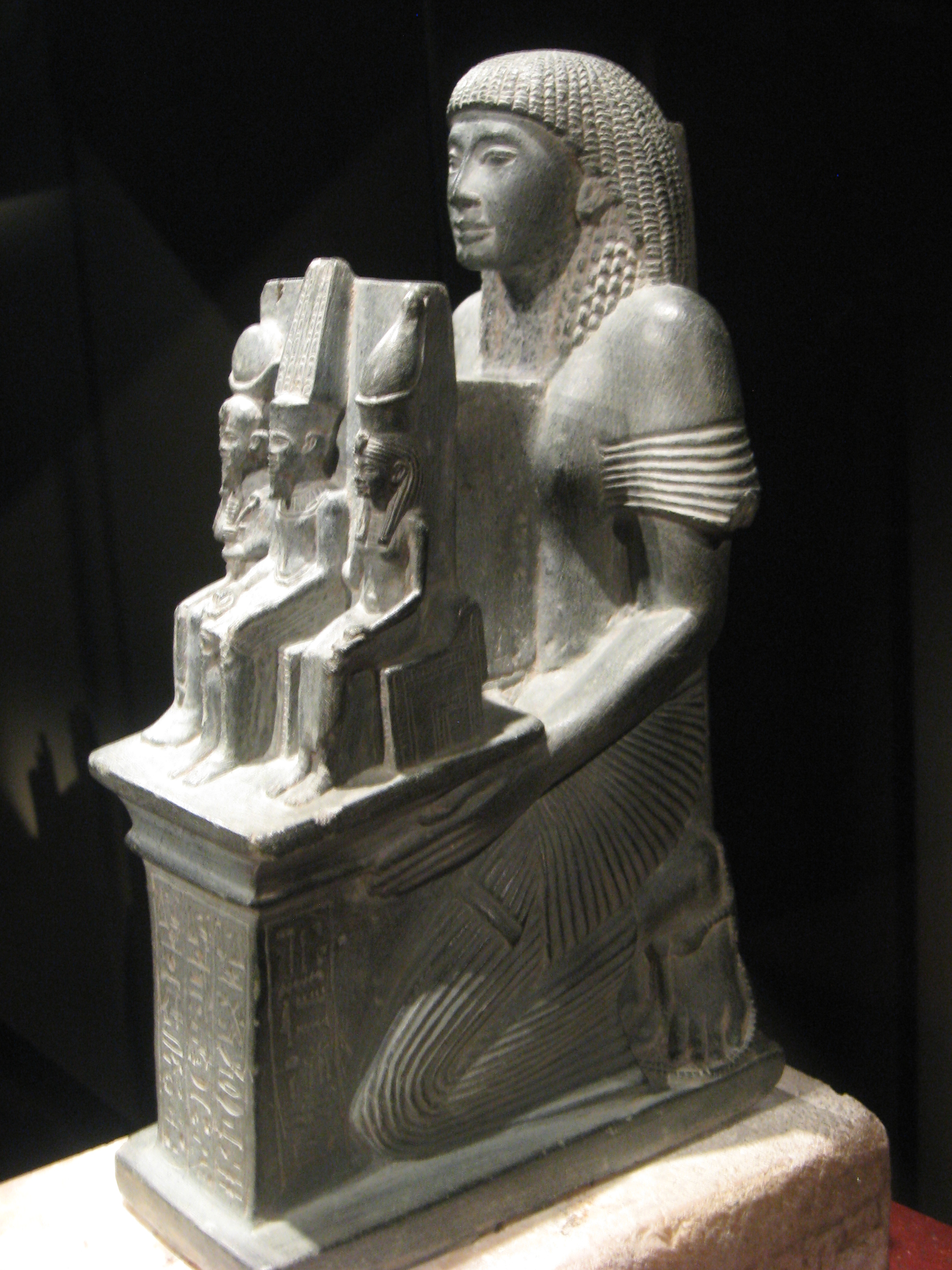 A view of the left side of the statue of Ramessesnakht, the High Priest of Amun at Thebes under Ramesses IV, 20th Dynasty. This is a schist, statue with a calcite base. It depicts the Triad = Amun & Mut as parents, Khonsu as son (note K's side-braid). Its catalogue number is Egyptian Museum CG 42163. Ramessesnakht served as High Priest of Amun from the reigns of Ramesses IV until that of Ramesses IX.